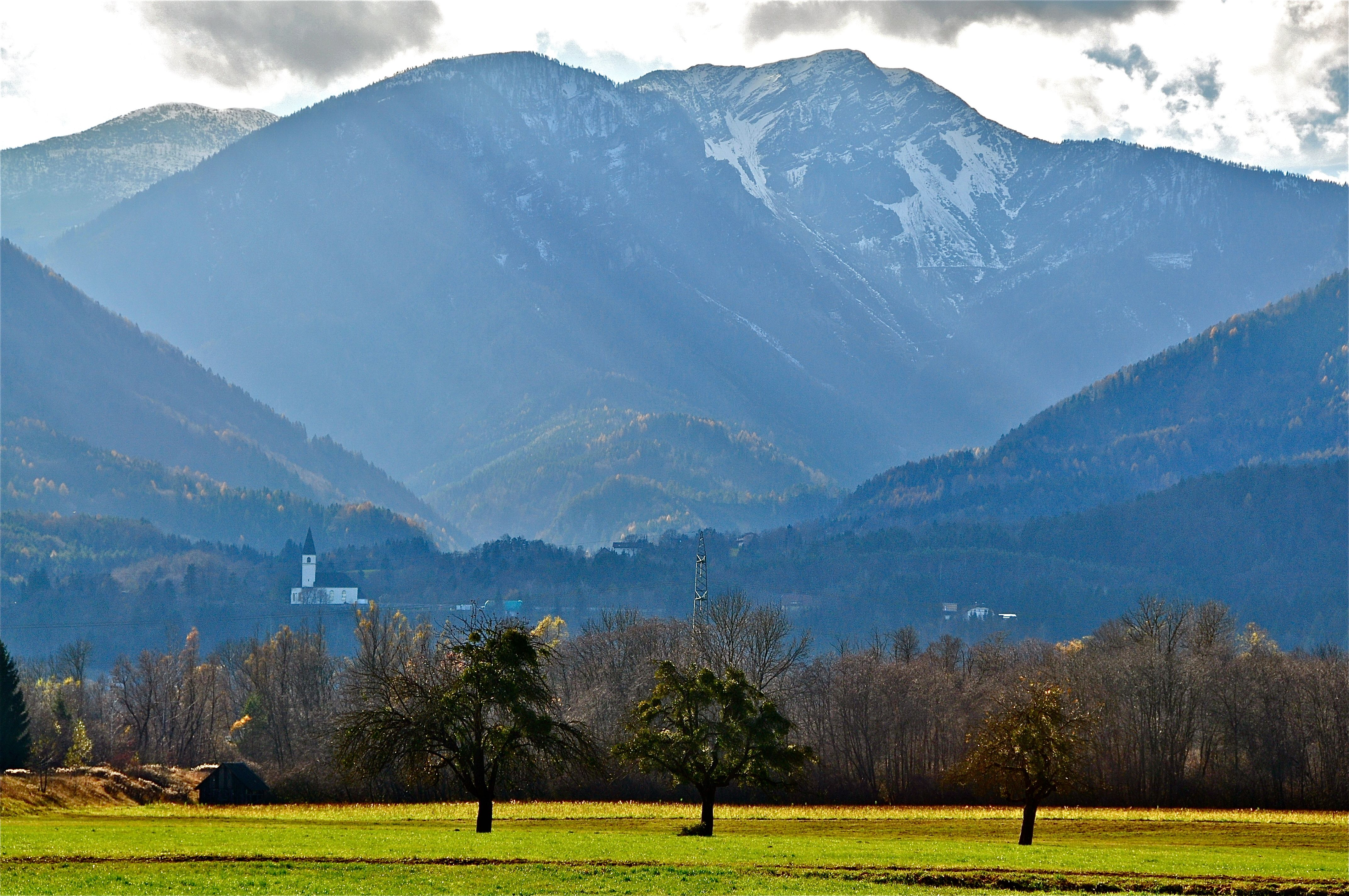 Parish church Holy Jakob, in Saint Jakob, municipality Saint Jakob in the Rosental, district Villach Land, Carinthia, Austria